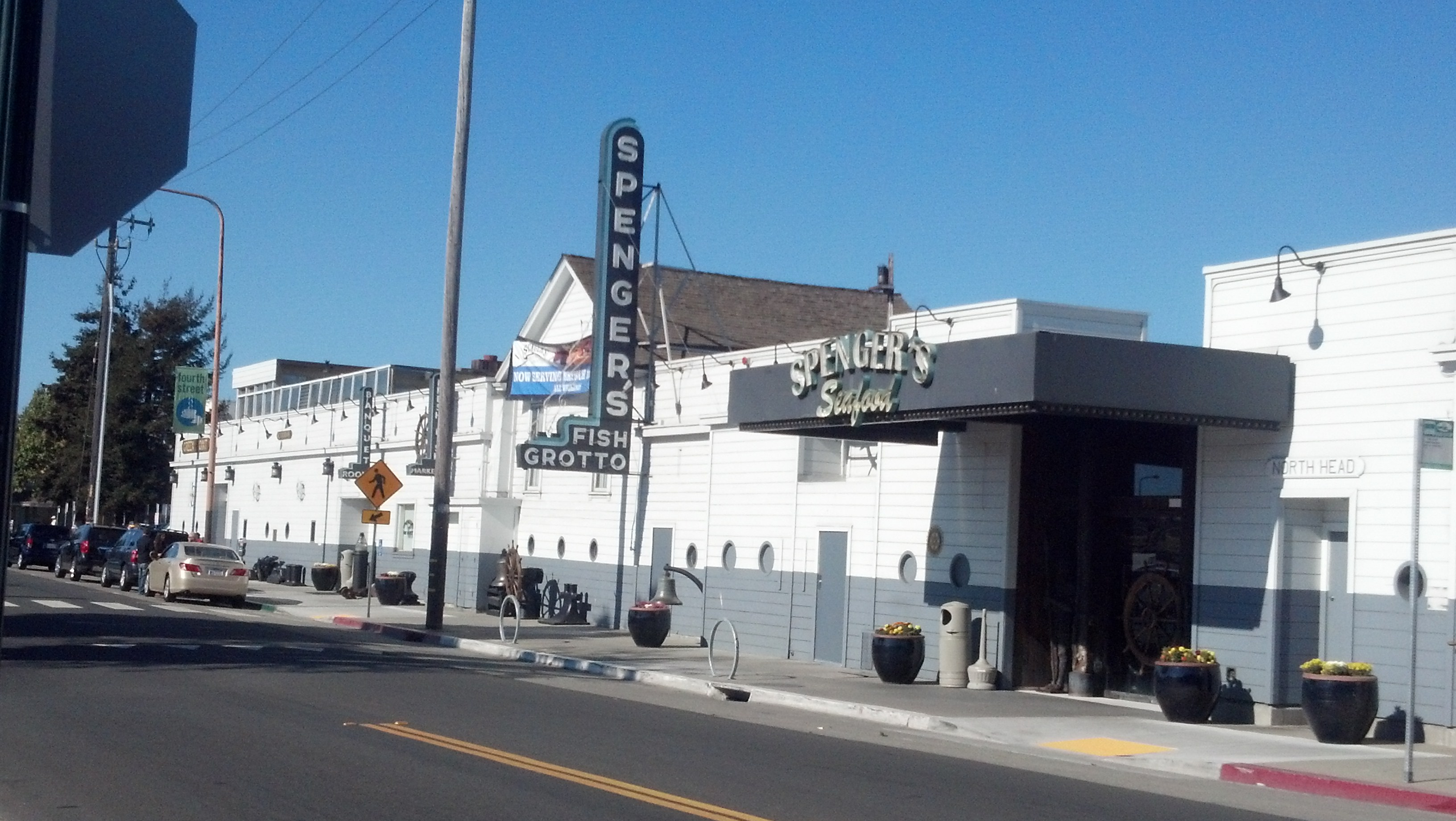 Historic seafood restaurant located in Berkeley, California.